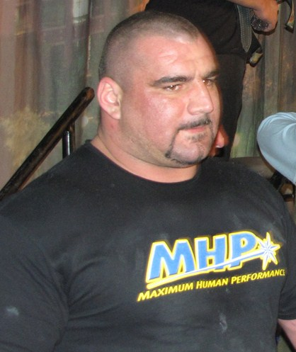 Ervin Katona - the top strength athlete from Serbia.